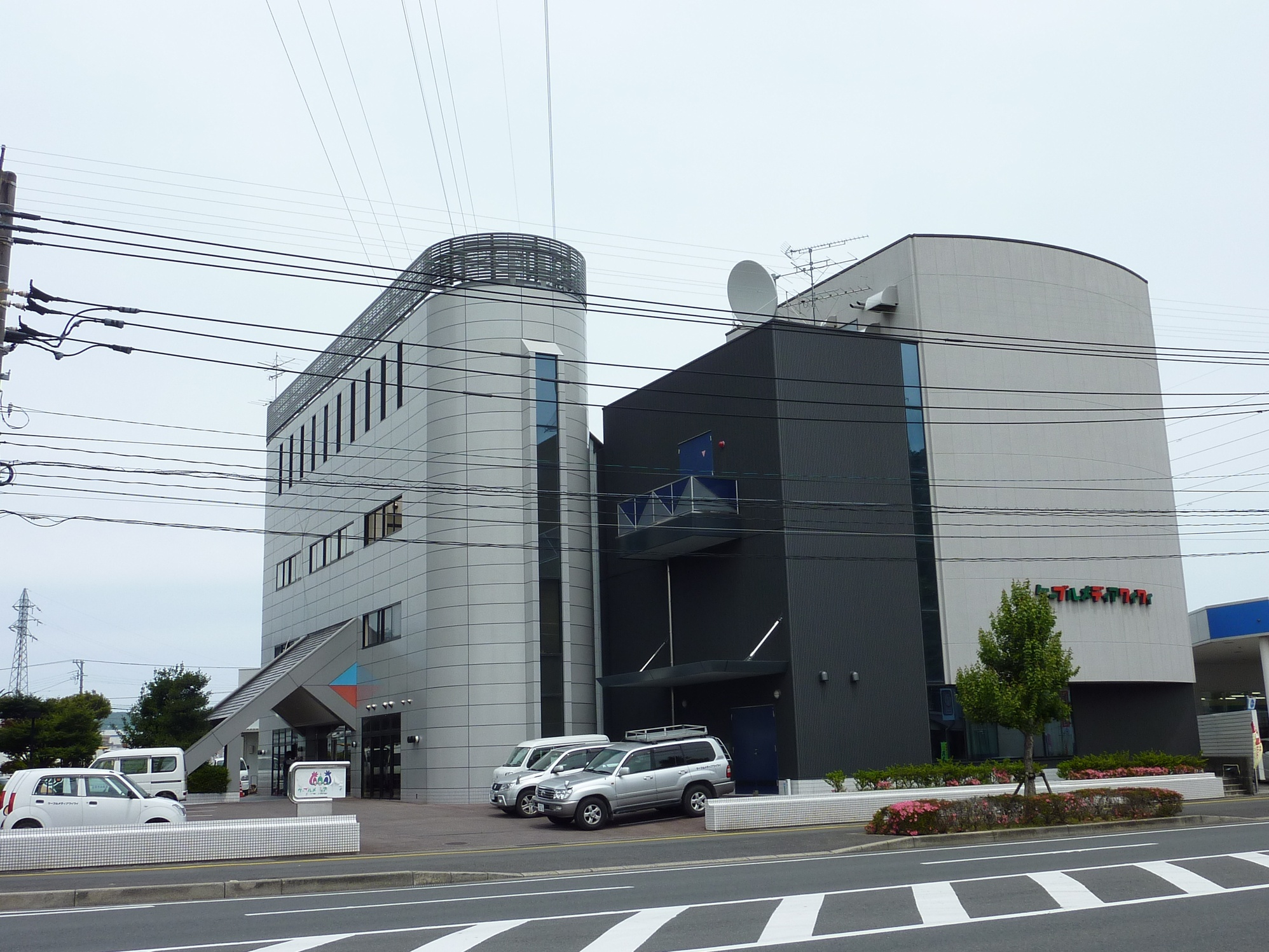 Cable Media Waiwai (CATV) Nobeoka Station (Nobeoka City, Miyazaki, Japan)